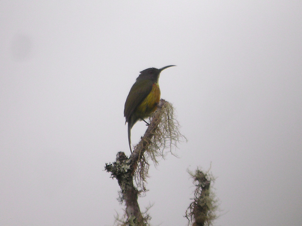 Apo Sunbird (Aethopyga boltoni) — Mount Kitanglad, Mindanao island, the Philippines.